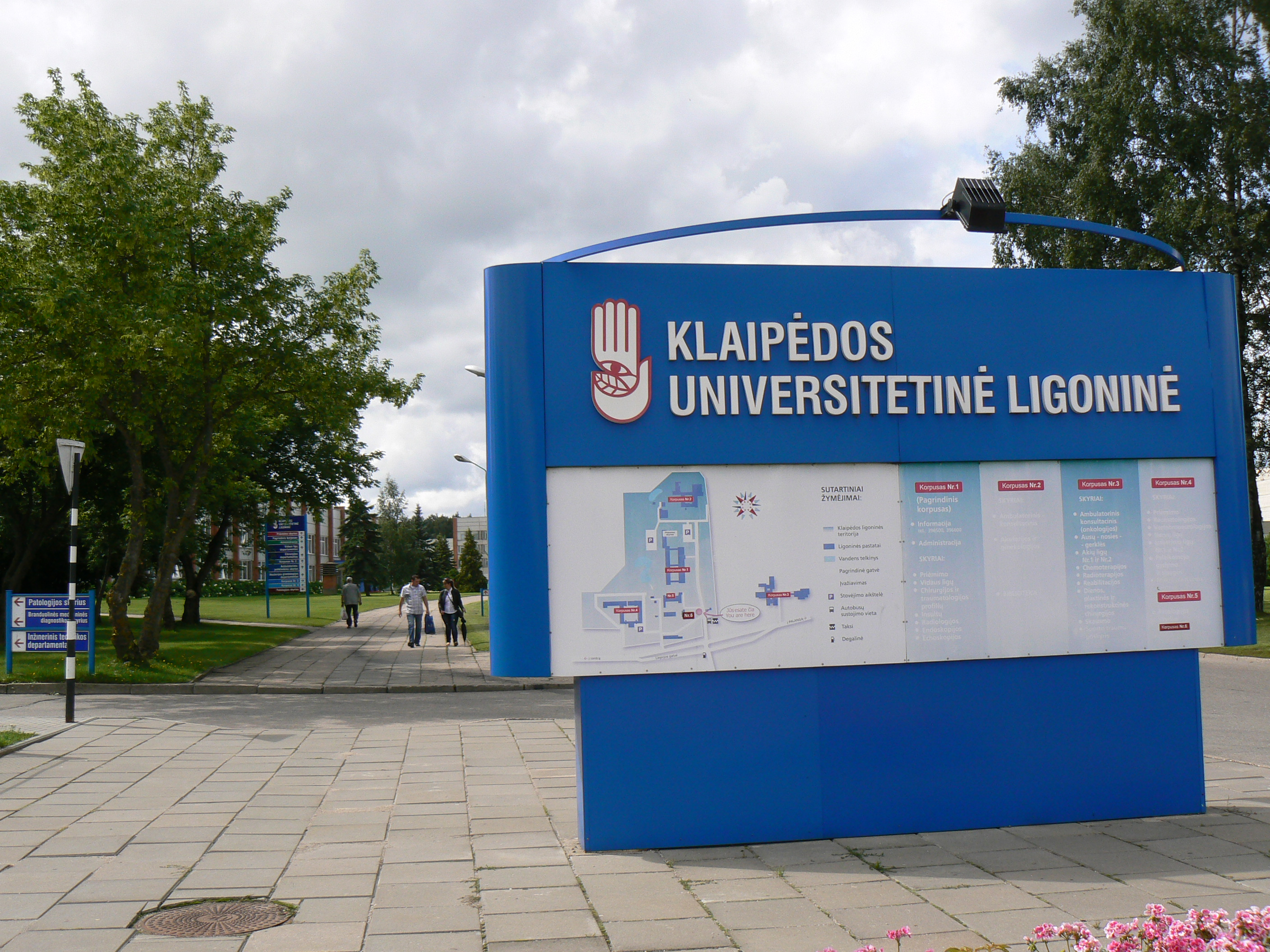 Information table by Klaipėda University's Hospital